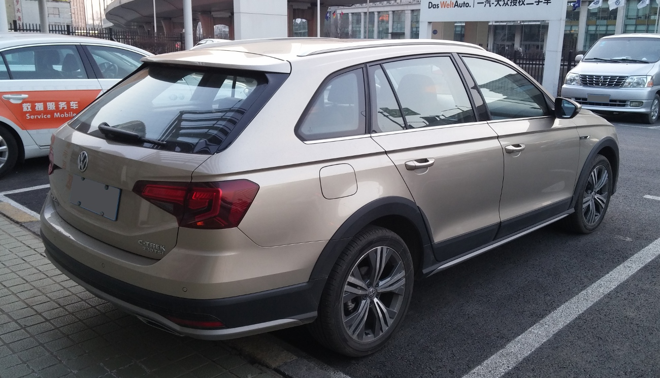 Volkswagen C-Trek photographed in Changchun, Jilin province, China.